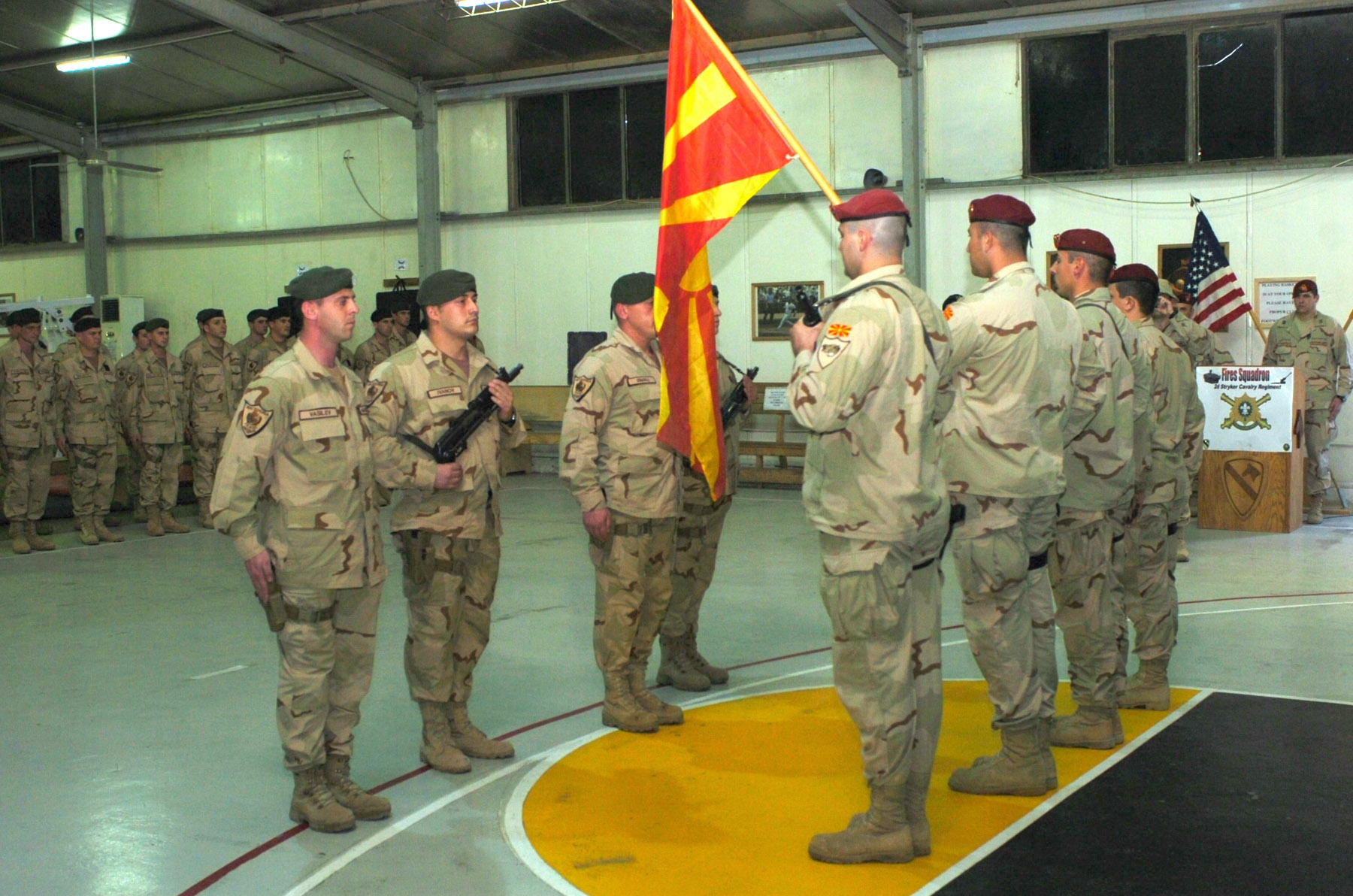 Macedonian army